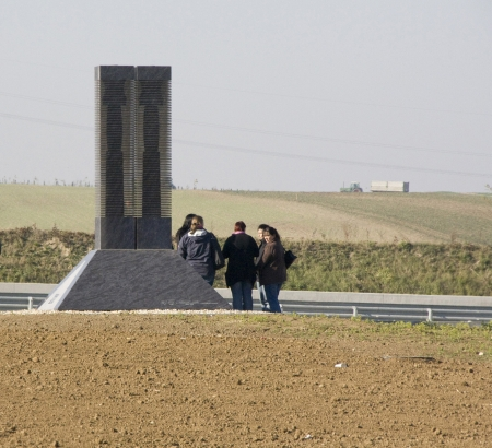 Sculpture "part", Vizag Blue stone, sculpted, in 3 parts, 250 x 100 x 40 cm, on socket 120 x 244 x 188 Art in public space: highway station Hochleithen, highway A5, Austria